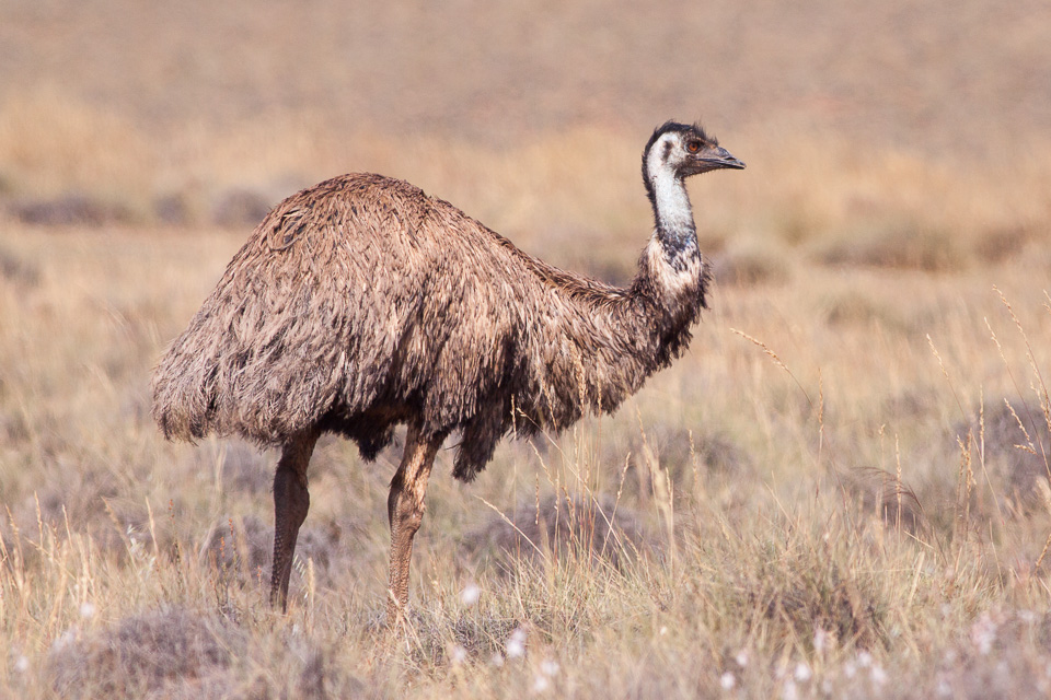 Flinder's Range National Park, South Australia